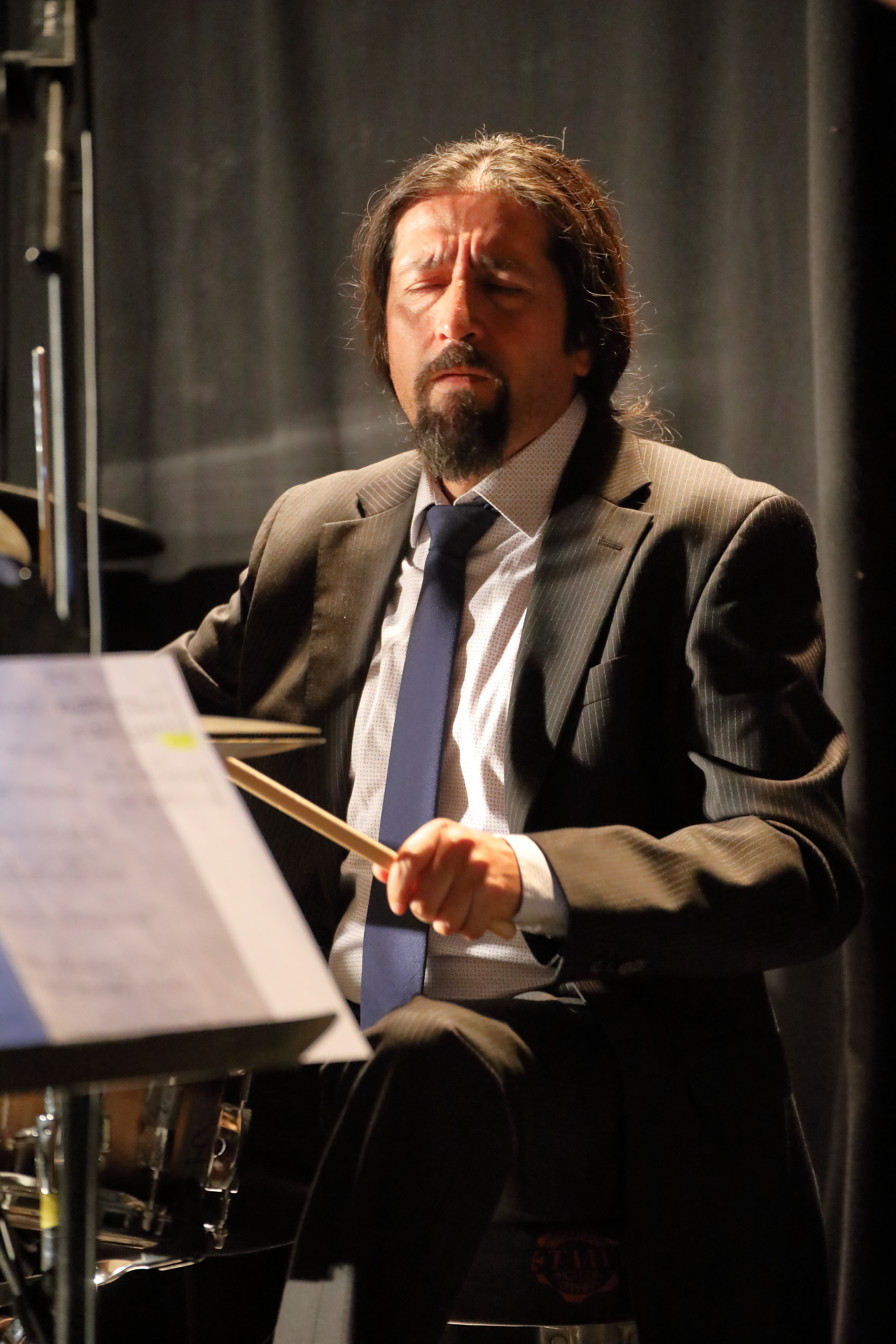 The Azar Lawrence Experience at INNtöne Jazzfestival 2019.